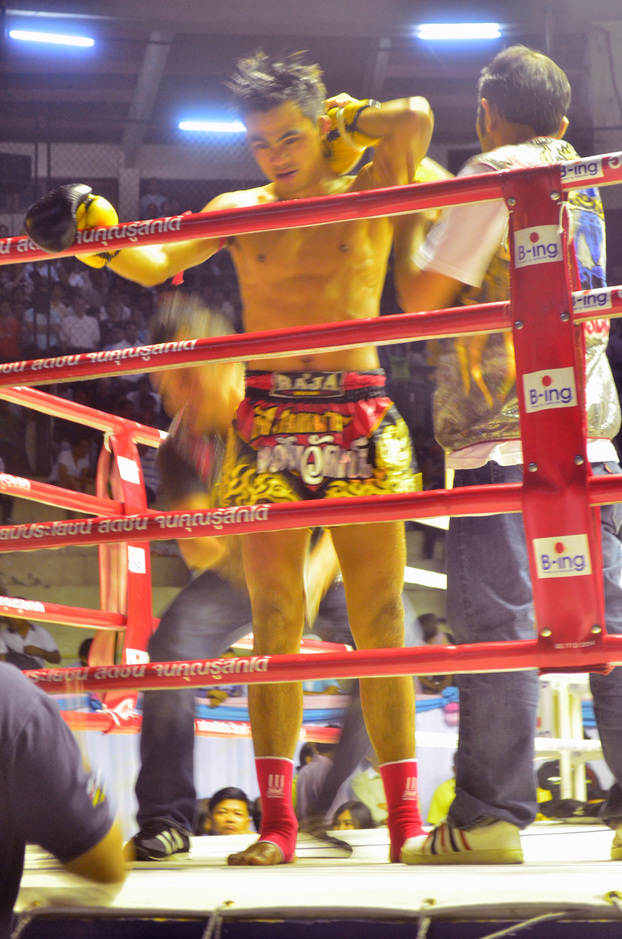 Rittidet Wor. Wantawee